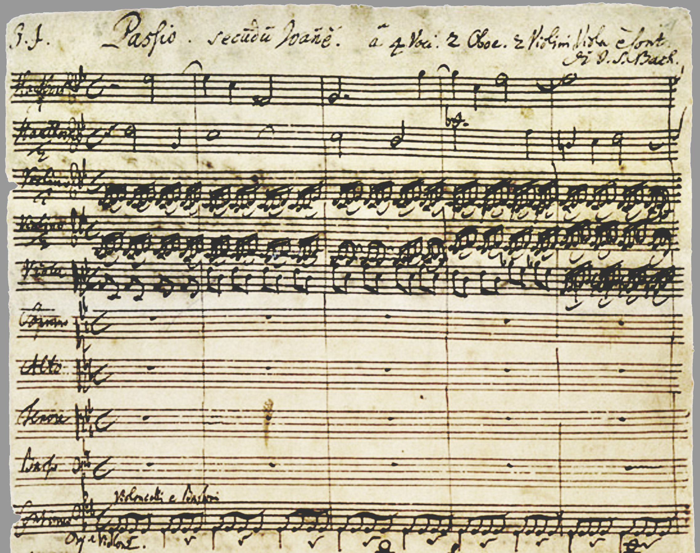 Detail - First ten staves of File:Johannespassion.jpg